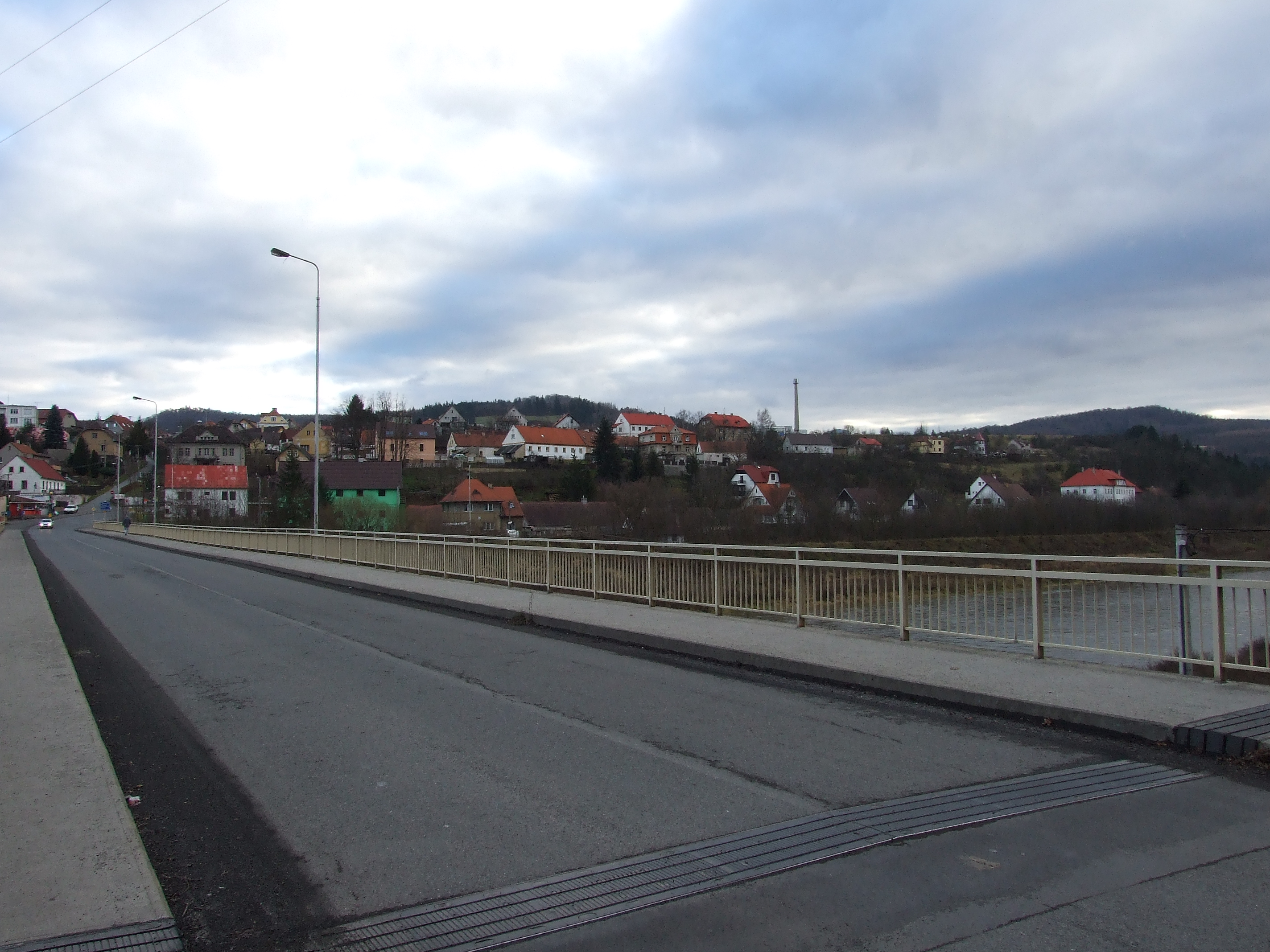 Village of Roztoky, Rakovník District, CZ